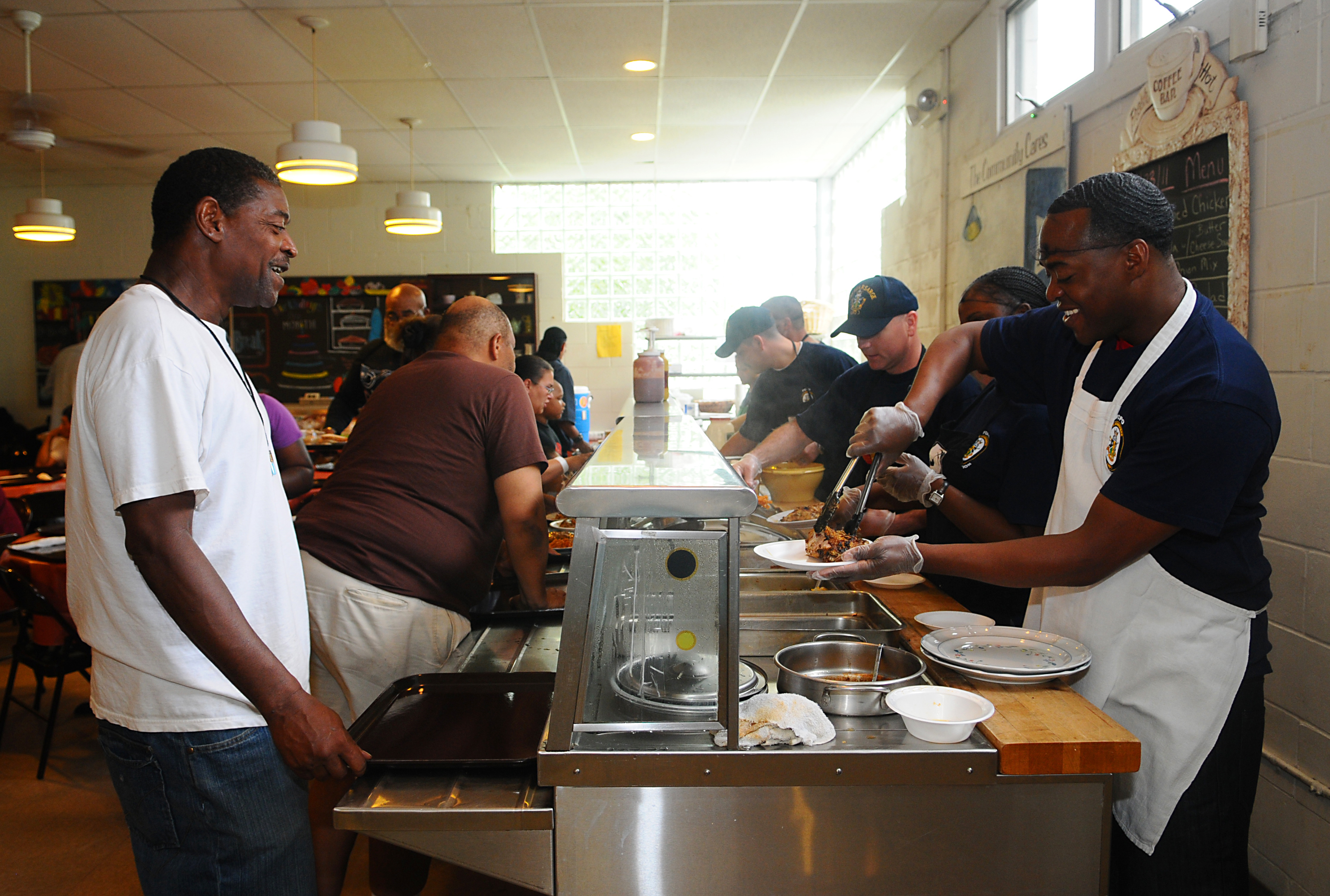 RED BANK, N.J. (June 23, 2011) Aviation Boatswain's Mate 1st Class (Handling) Donya Craig, right, serves chicken to a patron at Norma Todd's Lunch Break, a soup kitchen in Red Bank, N.J., during a community service project. Craig is a member of the First Class Petty Officer Association aboard the amphibious assault ship USS Kearsarge (LHD 3). Kearsarge is offloading ammunition at Naval Weapons Station Earle, N.J. after an extended eight and a half month deployment. (U.S. Navy photo by Mass Communication Specialist 3rd Class Cristina Gabaldon/Released)